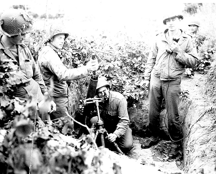 Members of the 504th Parachute Infantry Regiment prepare to fire an 81mm mortar during the battle for Italy.